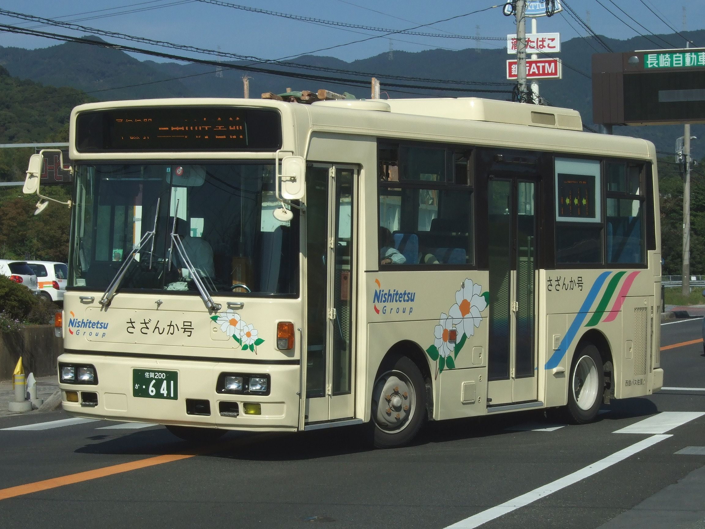 Sazanka Go, Yoshinogari Town community bus 吉野ヶ里町コミュニティバス「さざんか号」